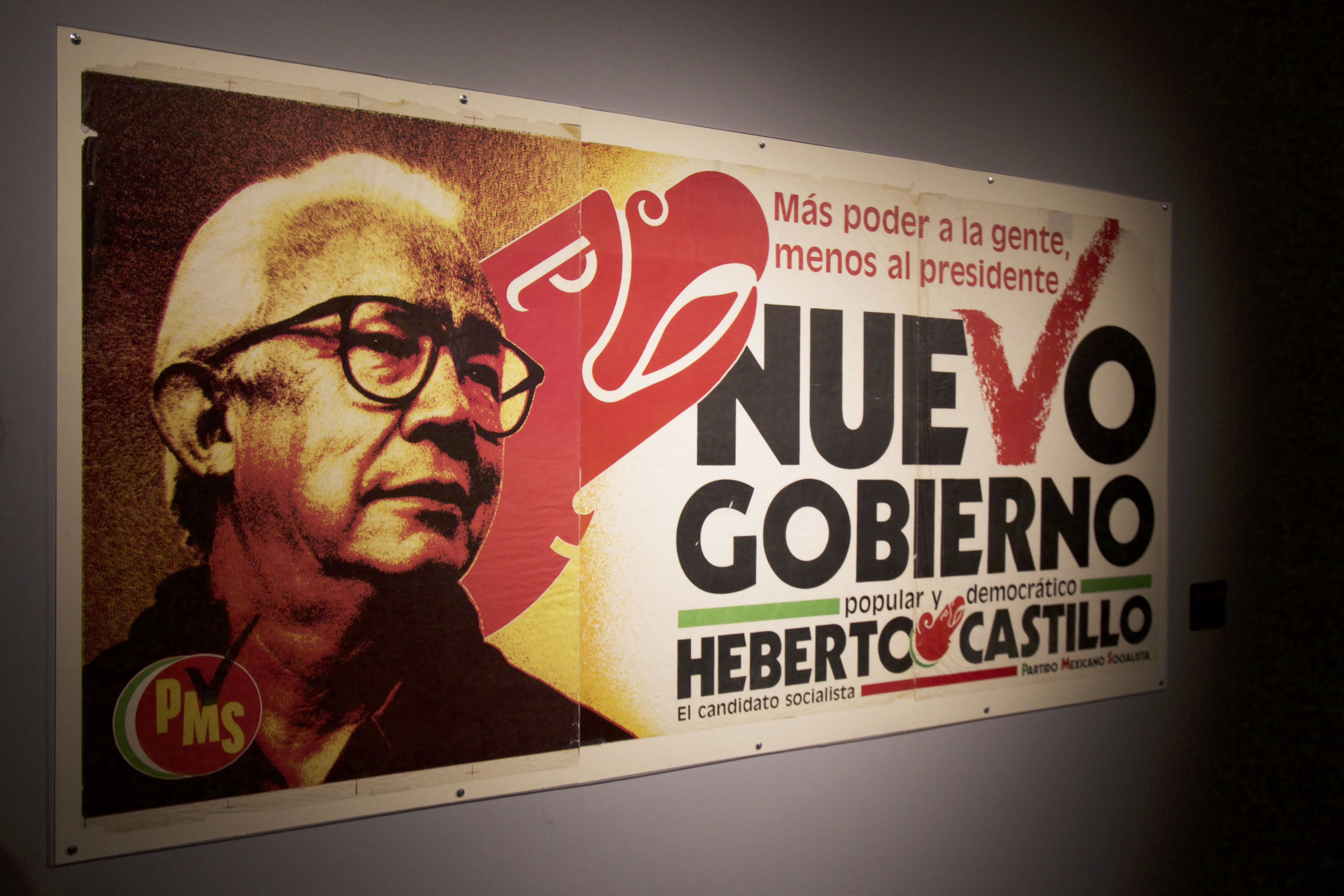 Jueves 6 de abril de 2017. El la Sala de Exposiciones Temporales del Memorial del 68 / Centro Cultural Universitario-Tlatelolco, se inauguró la exposición Mejor la Verdad - Heberto Castillo Martínez, la cual hace una revisión de las diferentes facetas del político y periodista mexicano, en colaboración con la Fundación Heberto Castillo y la Secretaría de Cultura de la Ciudad de México. A la inauguración acudieron Laura Itzel, Héctor Castillo Juárez y Teresa Juárez hijos y viuda, respectivamente, del político mexicano; así como Cuauhtémoc Cárdenas, coordinador General de Asuntos Internacionales y Eduardo Vázquez Martín, secretario de Cultura ambos del Gobierno de la Ciudad de México. Fotografía: Milton Martínez / Secretaría de Cultura CDMX